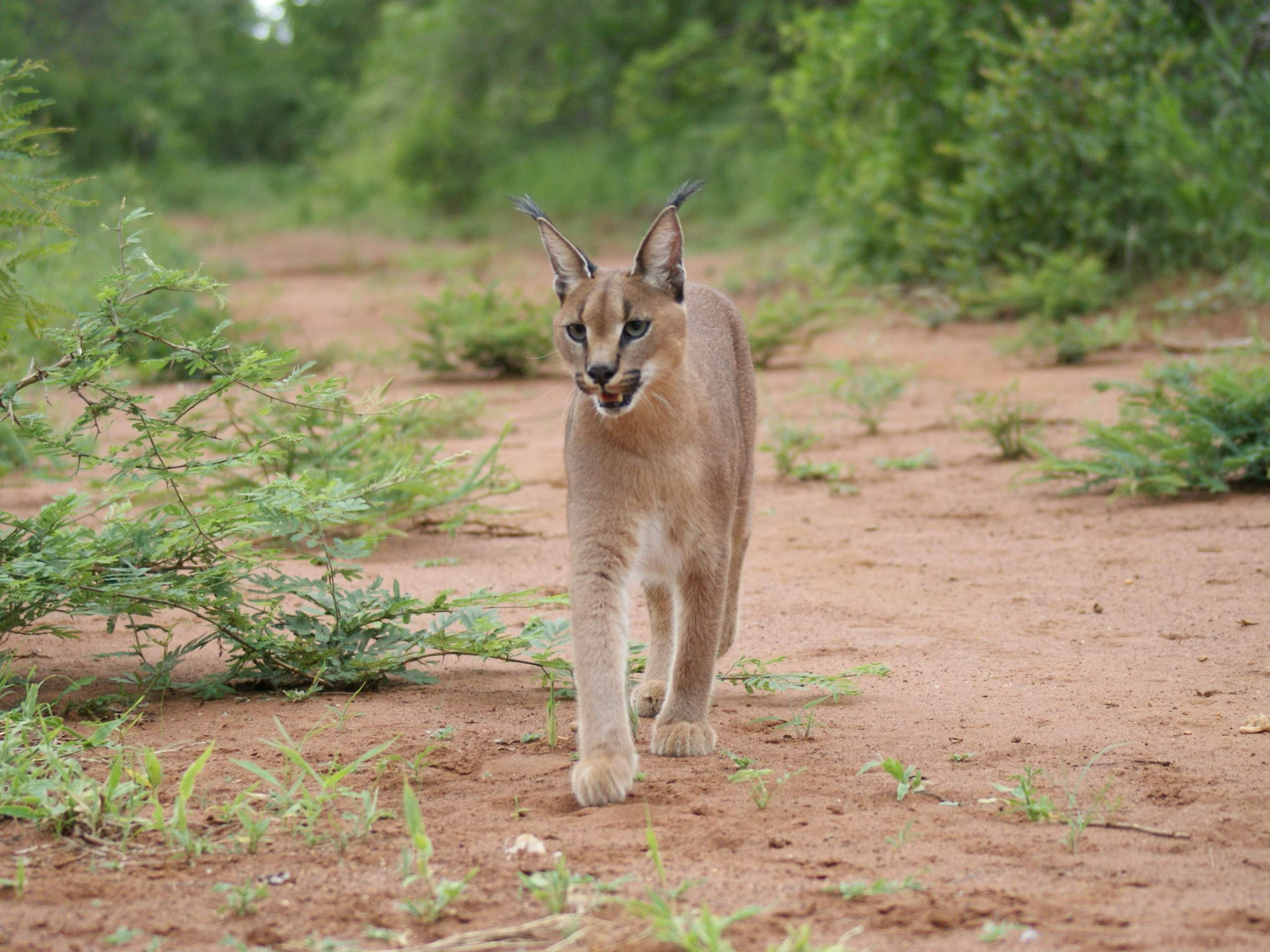 Caracal at SanWild Wildlife Sanctuary